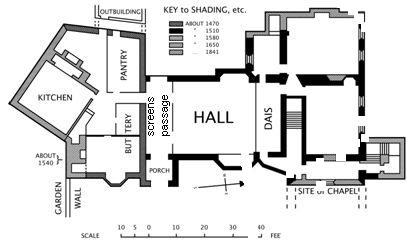 Groundplan of Horham Hall, Thaxted, Essex. Elizabethan manor house, with added text showing screens passage